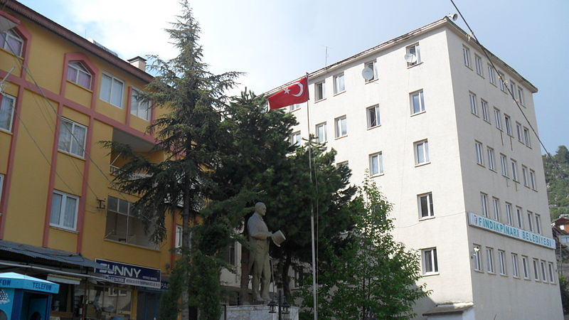 Fındıkpınar, Mersin, Turkey